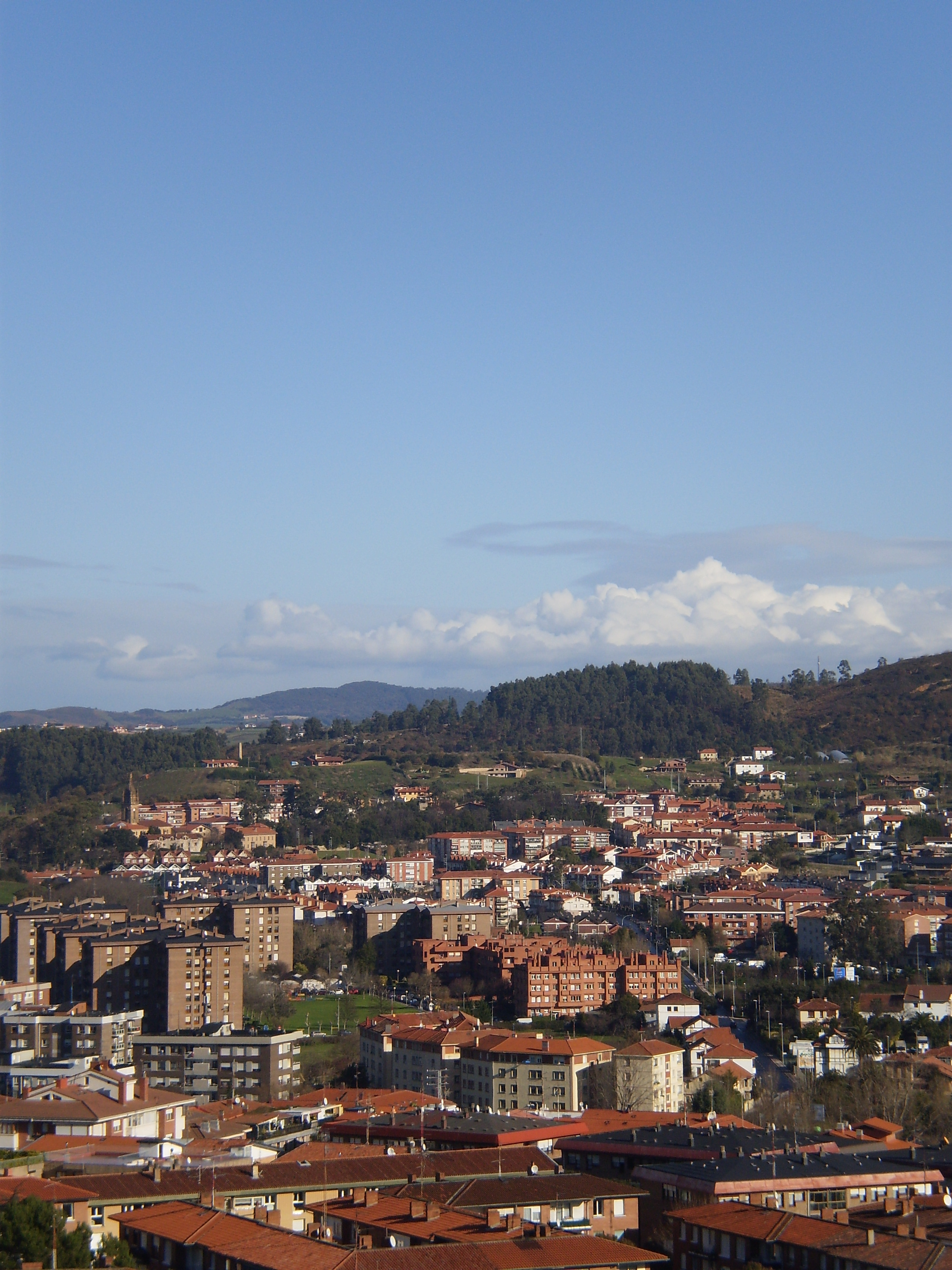 Berango photographed from Algorta